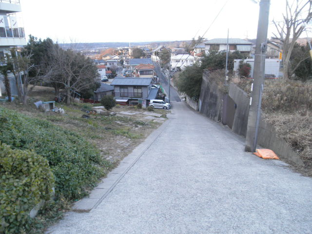 Shijimitown Jiyugaokahonmchi3 Mikicity Hyogopref